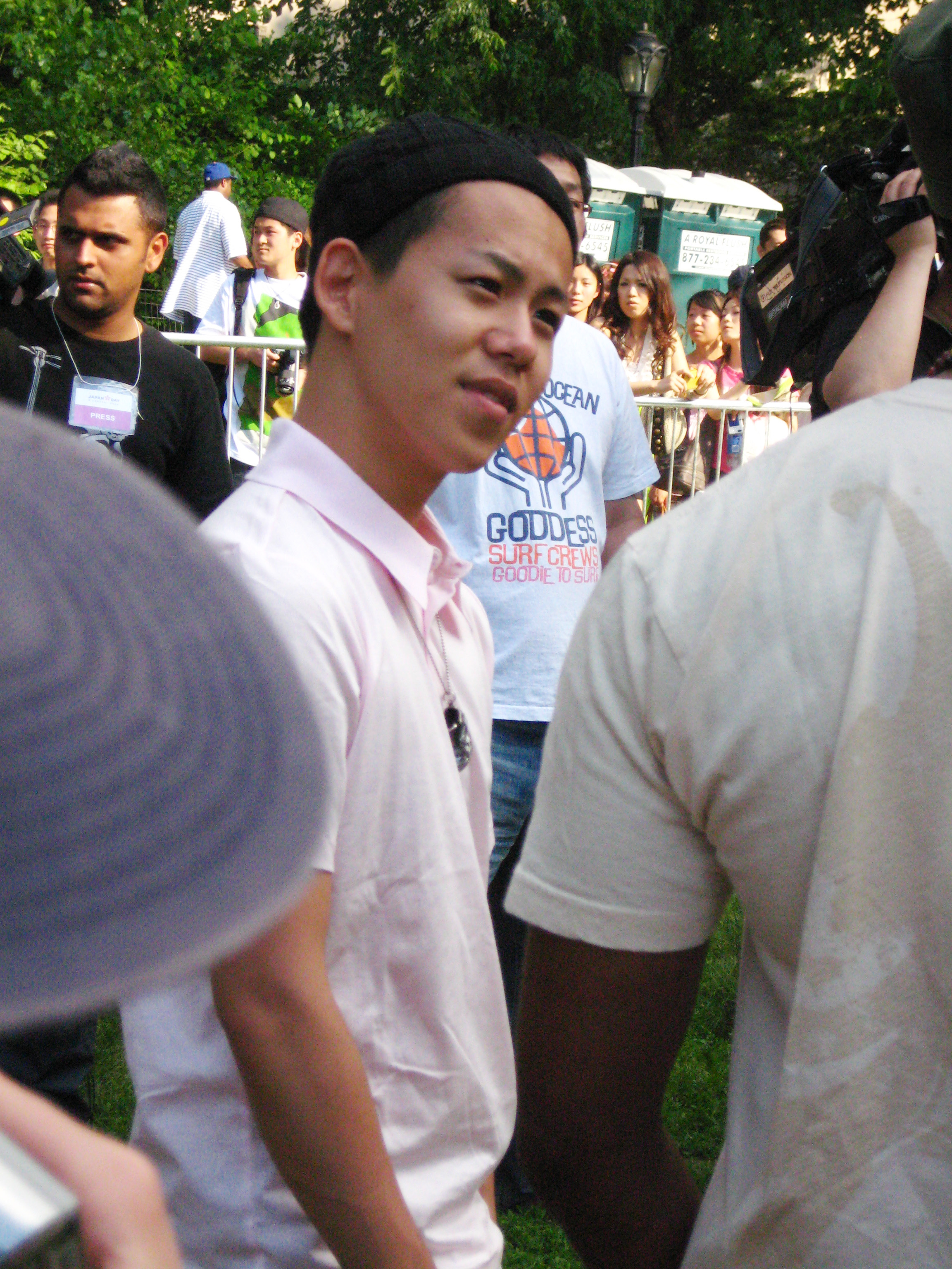 Shōta Shimizu live at Japan Day in Central Park, New York City.